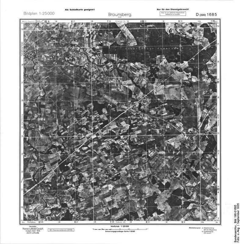 Braunsberg Ost Information added by Wikimedia users.